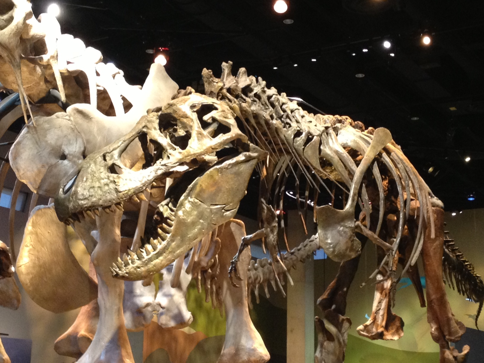 T-rex LTNHall, Perot Museum of Nature and Science, Dallas, Texas.